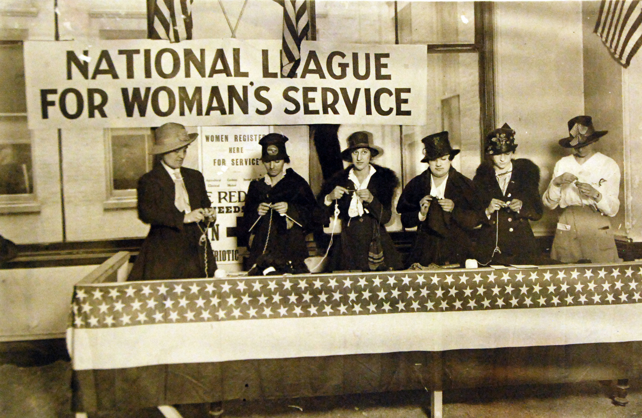 Lot-10970-4: WWI, Homefront. Women of National League for Women’s Service knitting. George C. Bain Collection. Courtesy of the Library of Congress. (2016/09/23).